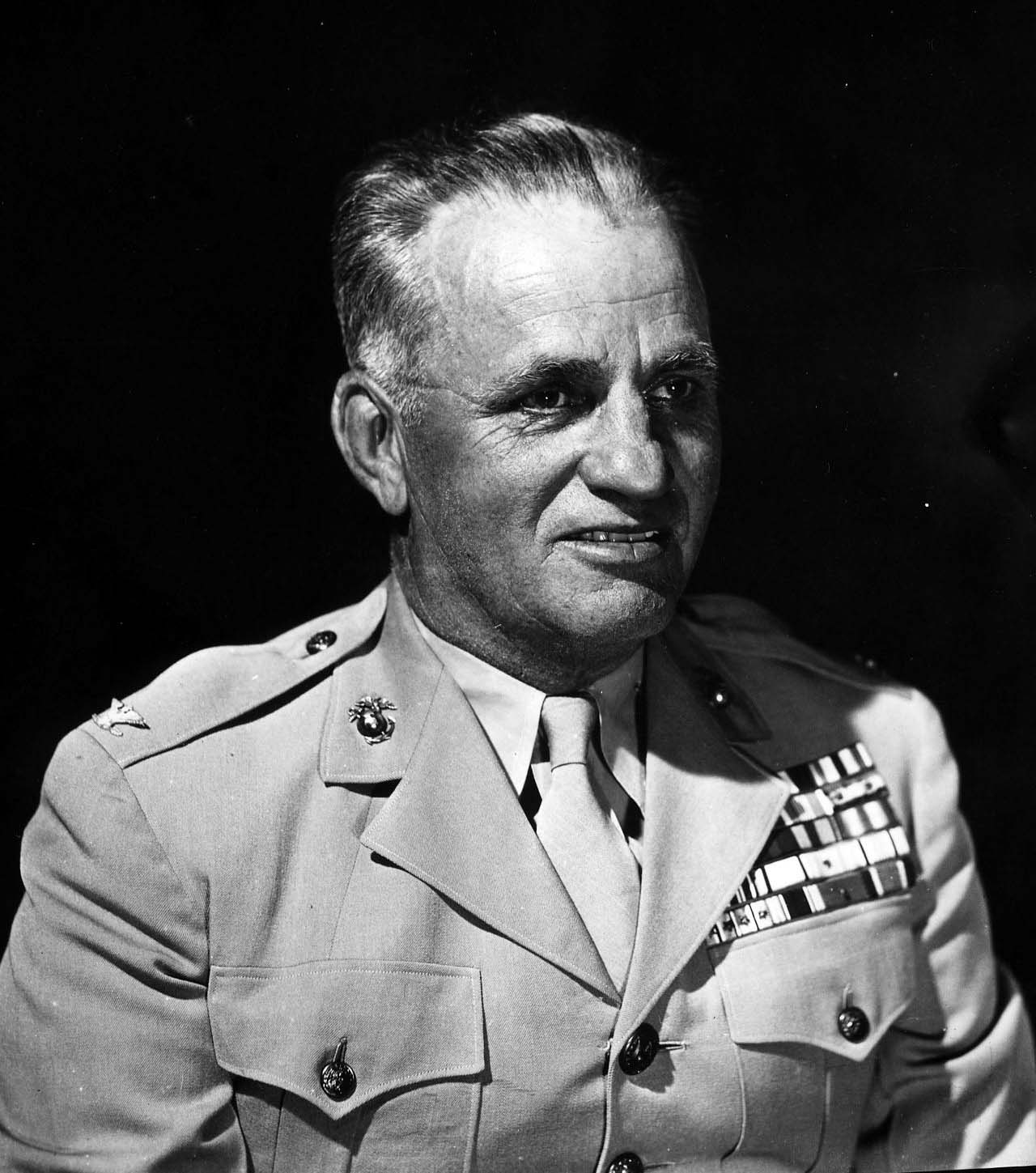 Julian Neil Frisbie (November 30, 1894 - April 28, 1963) was a highly decorated Officer of the United States Marine Corps with the rank of Brigadier General, who is most noted for his service as Commanding officer of the 7th Marine Regiment during the Battle of Cape Gloucester and later as Warden of Southern Michigan Prison during 1952 riots.